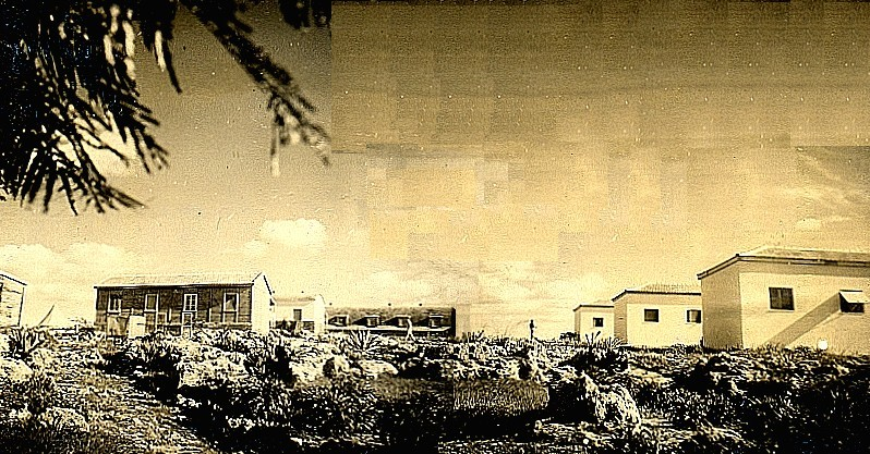 The dining hall and five other buildings on the hill.